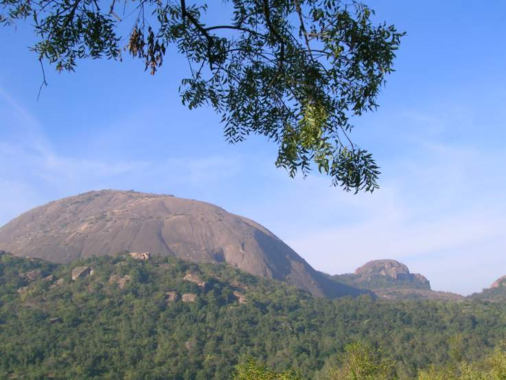 Savandurga, from the north east. A smooth, round hill rises above the surrounding vegetation. January 2007 Photograph by L. Shyamal